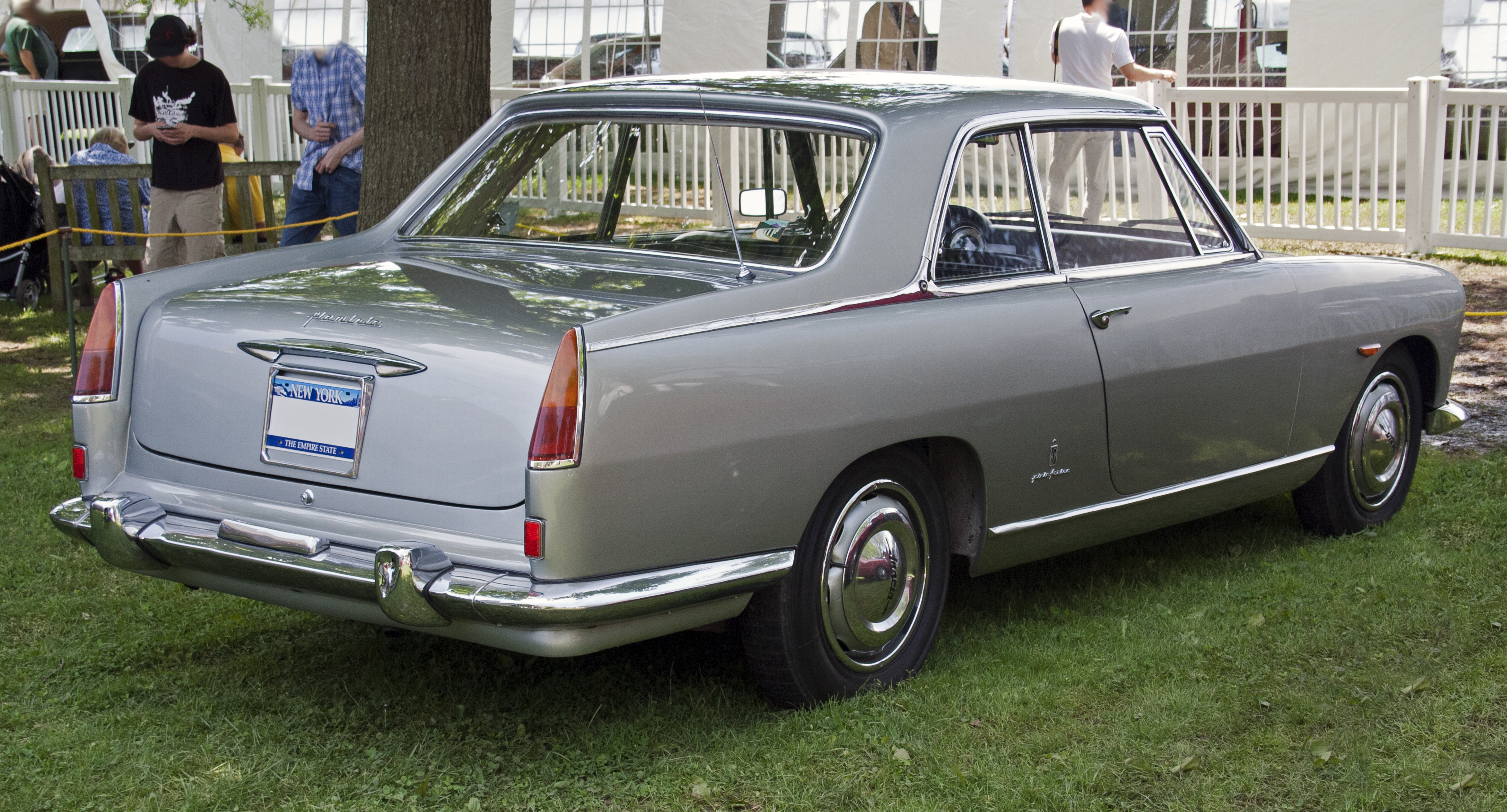 1964 Lancia Flaminia Coupé by Pininfarina at the 2012 Greenwich Concours d'Elegance.